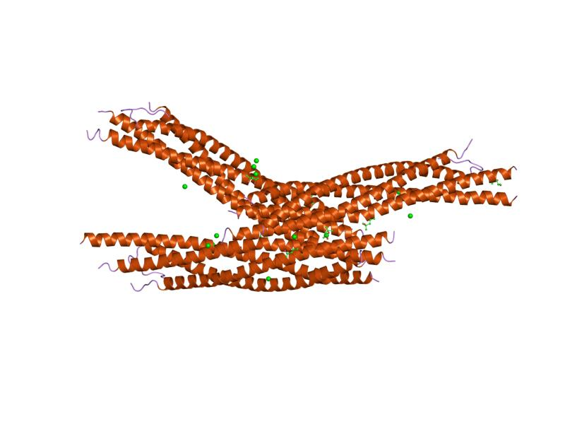 Cartoon representation of the molecular structure of protein registered with 1sfc code.